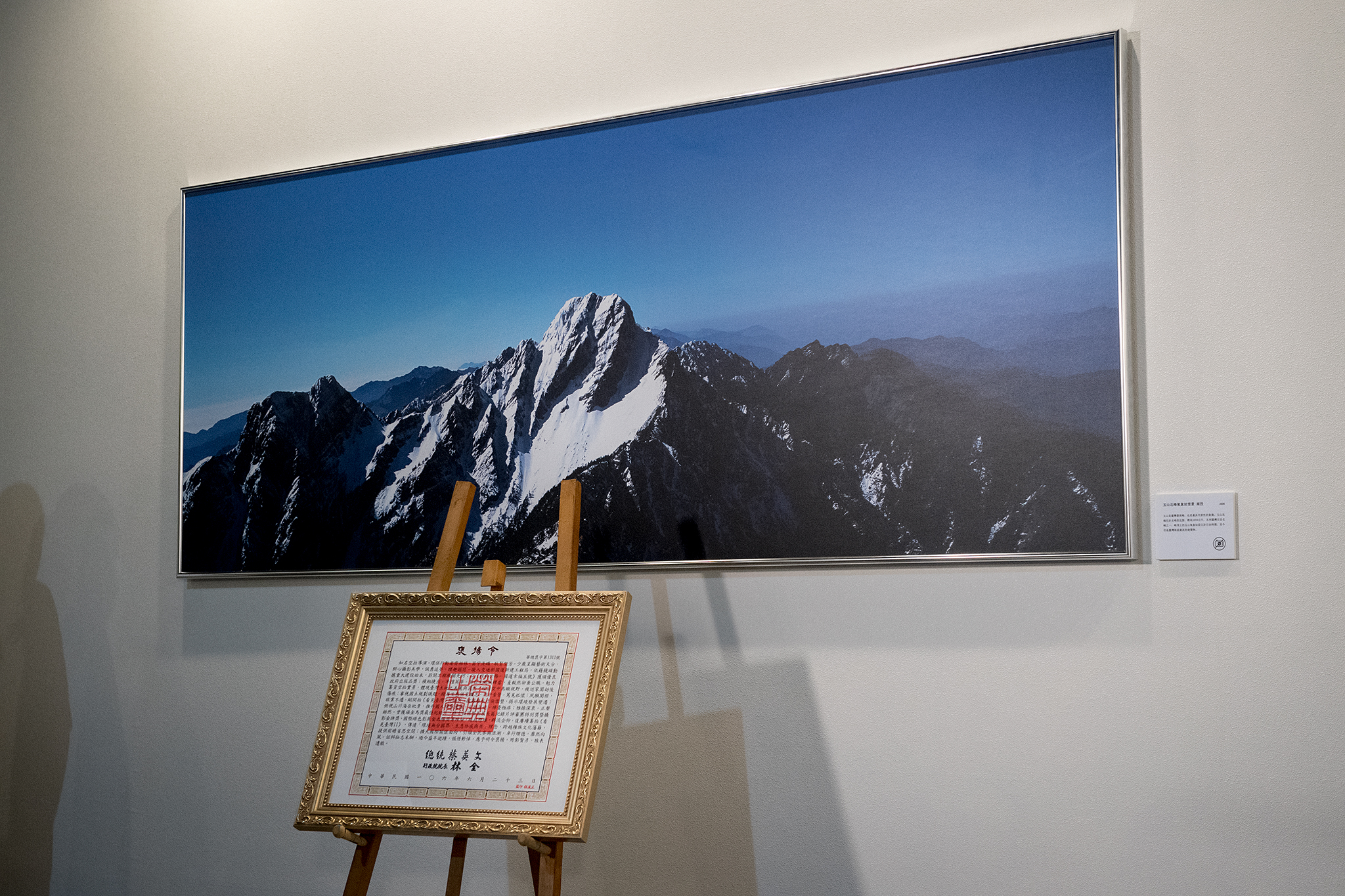 授權方式及範圍：中華民國總統府│政府網站資料開放宣告 Authorization Method & Scope: Office of the President, Republic of China (Taiwan) | Government Website Open Information Announcement